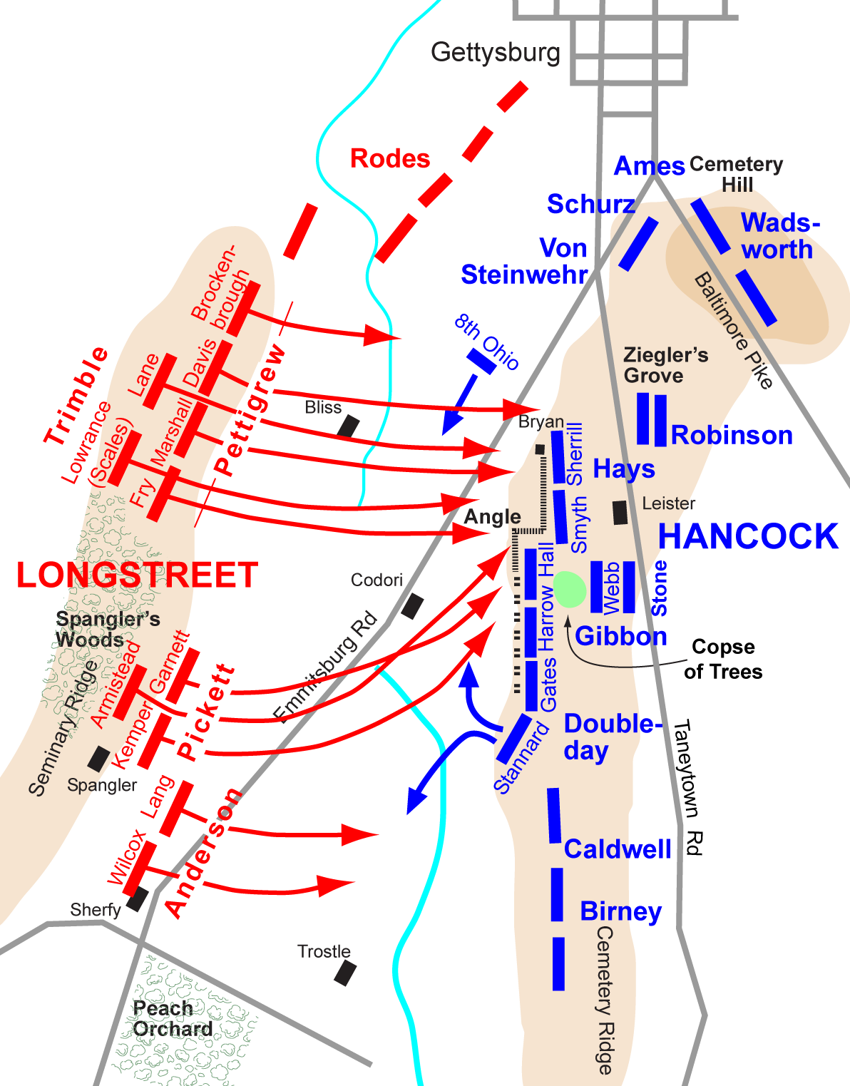 Map of Pickett's Charge; July 3, 1863, Battle of Gettysburg The bold red arrows on this map give the false impression that the troops led by General Tremble were positioned immediately to the north (left) of Pickett's division. This is not the case. Pettigrew's (Heth's) division consisting of the brigades under Fry, Marshall (Pettigrew's own), Davis, and Brockenbroug were to the left of Pickett in that order. Tremble's brigades (Scales and Lane) were supporting Pettigrew though as the attack neared its peak, the units became jumbled. This map gives the reader the false impression that Pettigrew's position was to the far left of the line.